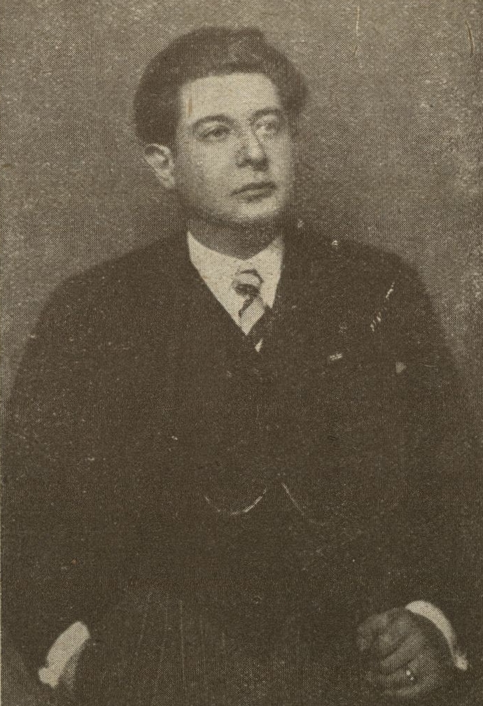 Heinrich Eduard Jacob, photo from the late 1920s